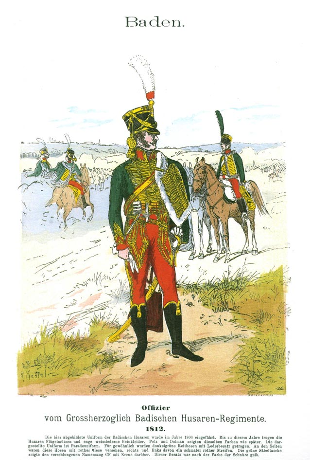 Baden. Offizier vom Großherzoglich Badischen Husaren-Regimente. 1812